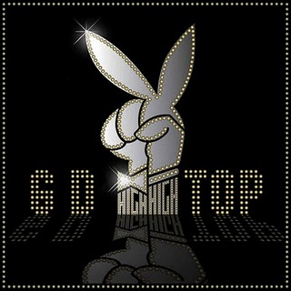 Album cover of 'GD&TOP'